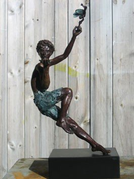 150 Limited edition of Peter Pan raising money for Great Ormond Street Hospital